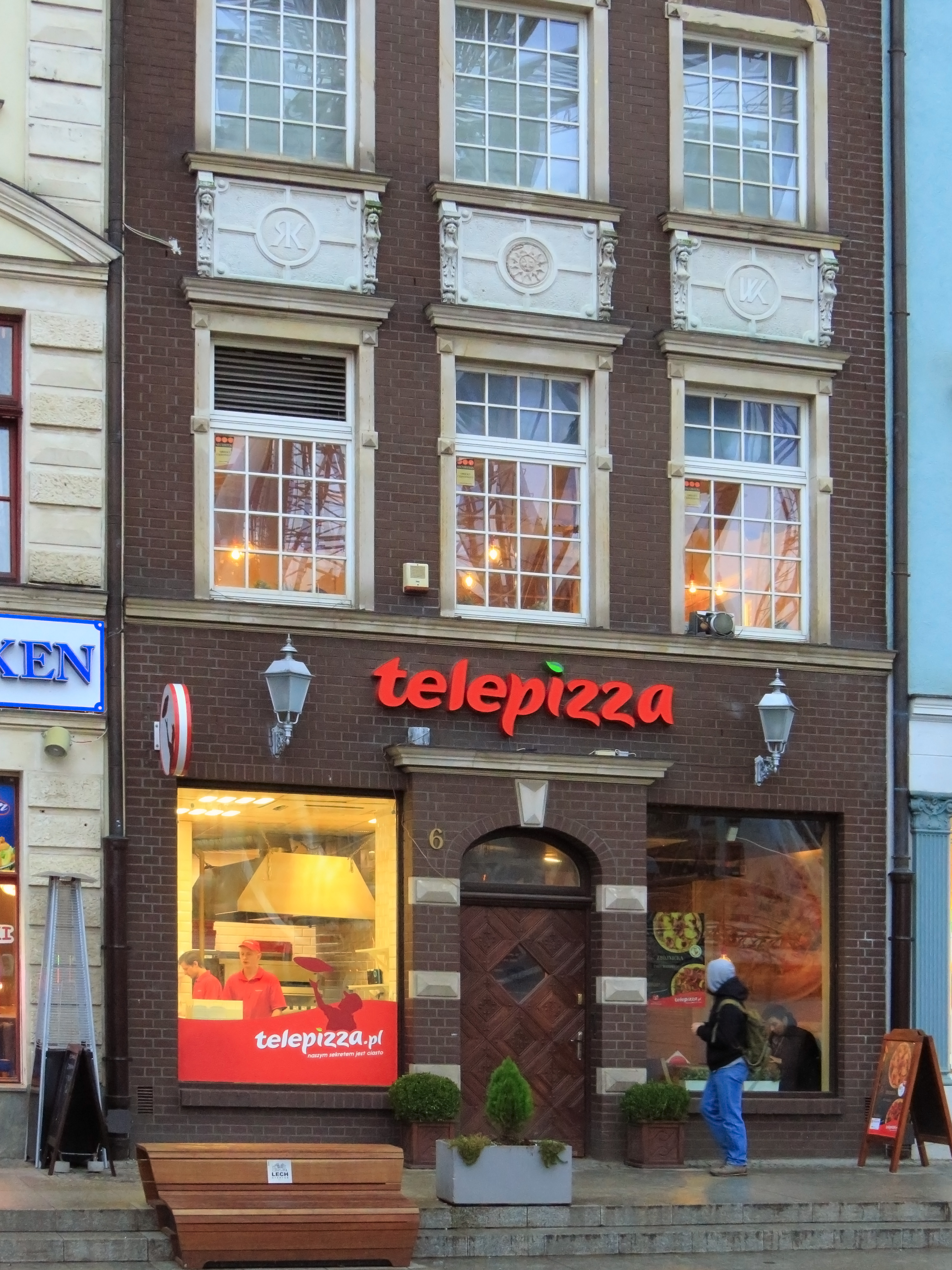 Pizzeria in Stągiewna Street, Gdańsk